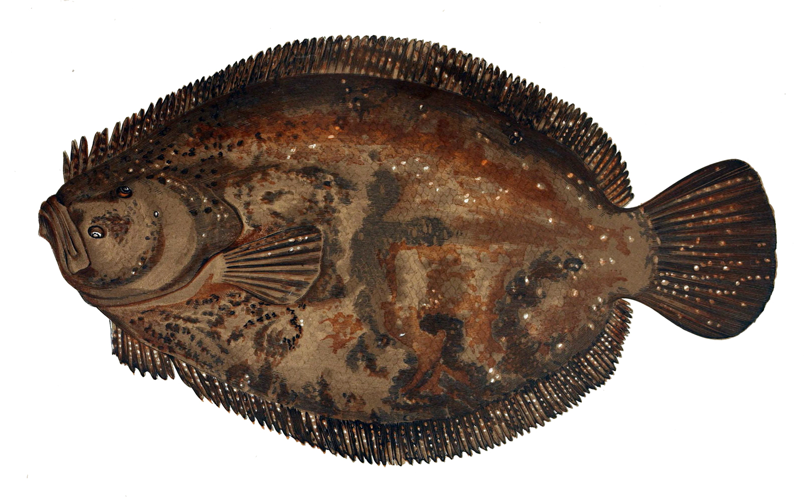 Scophthalmus rhombus